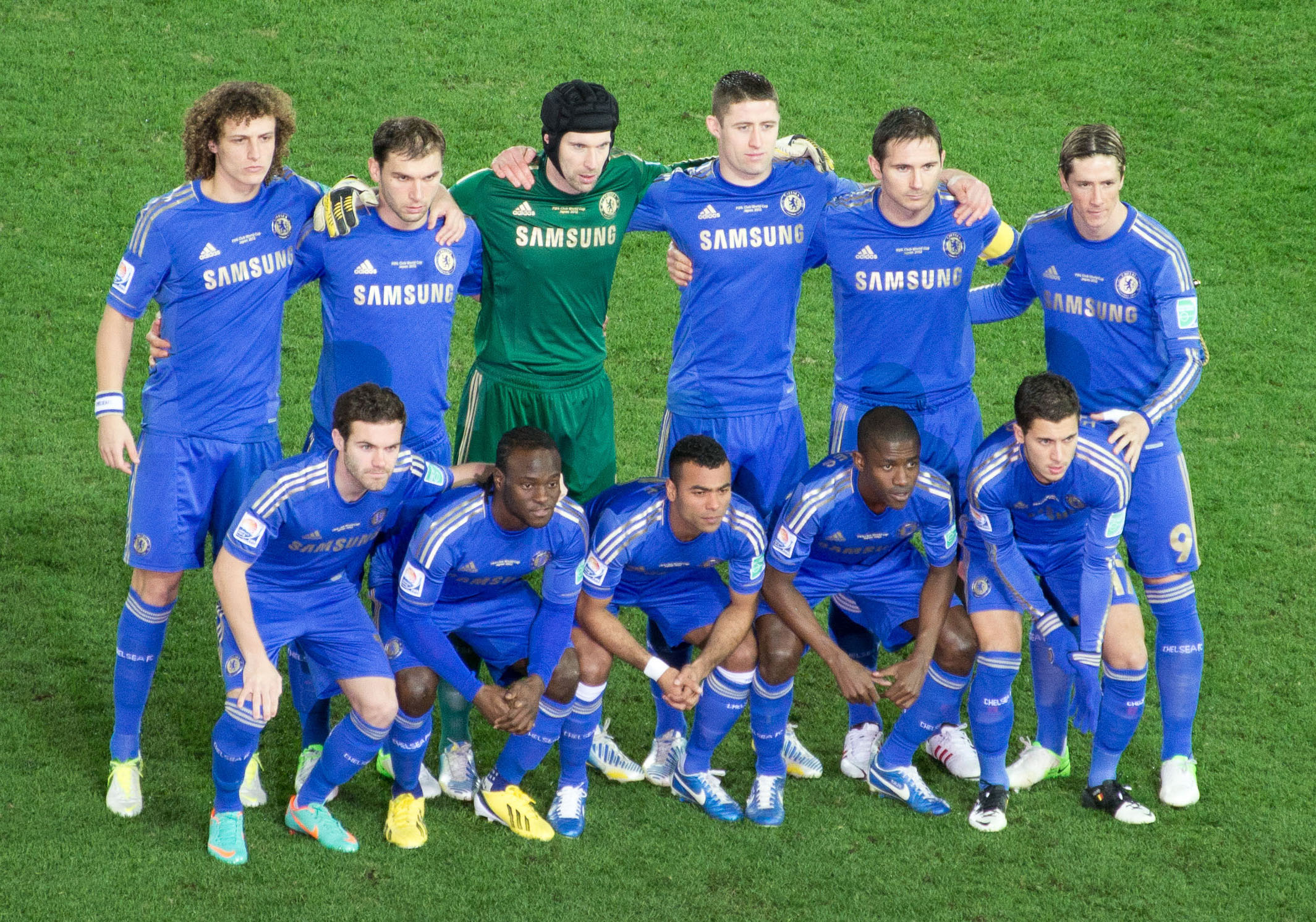 Front, from left to right: Juan Mata, Victor Moses, Ashley Cole, Ramires, Eden Hazard Back: David Luiz, Branislav Ivanović, Petr Čech, Gary Cahill, Frank Lampard, Fernando Torres